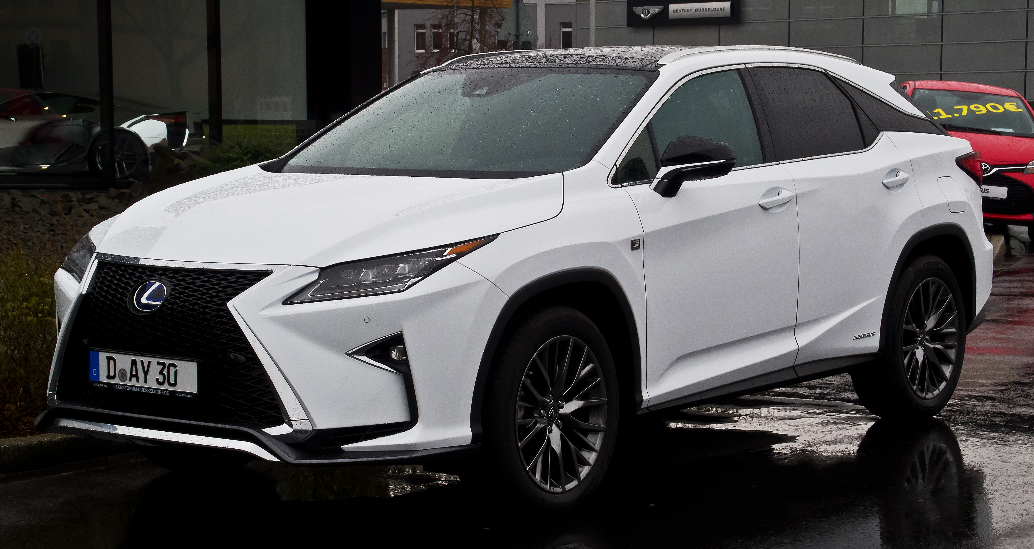 Lexus RX 450h F Sport (IV)